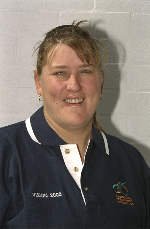 Portrait of Australian field athletics competitor Joanne Bradshaw, 2000 Australian Paralympic Team athlete